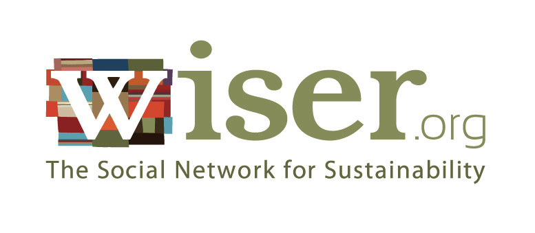 New logo adopted by in March 2012 with name change from WiserEarth